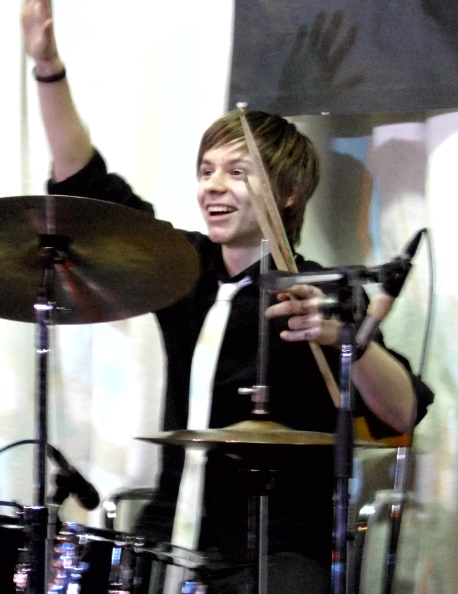 Štěpán Krtička (born 1996), a Czech actor – as drummer with indie rock band The Colorblinds, at concert on February 1, 2011 in Rock Café Prague.